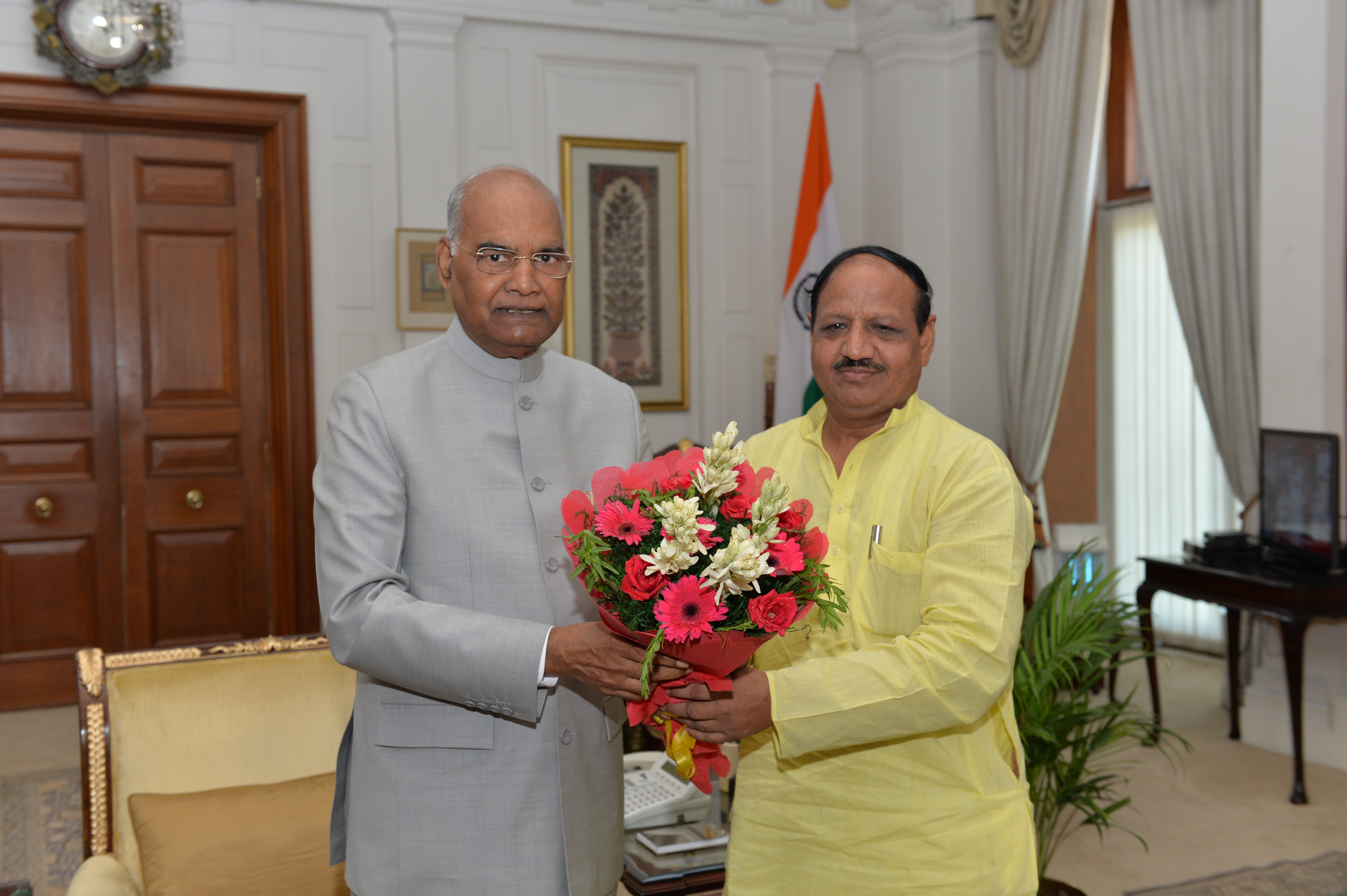 president kovind with and dr harit